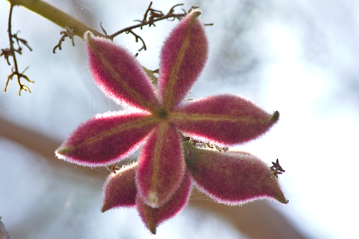 Young fruits of a Ghost Tree in GKVK Botanical Garden, Bengaluru.